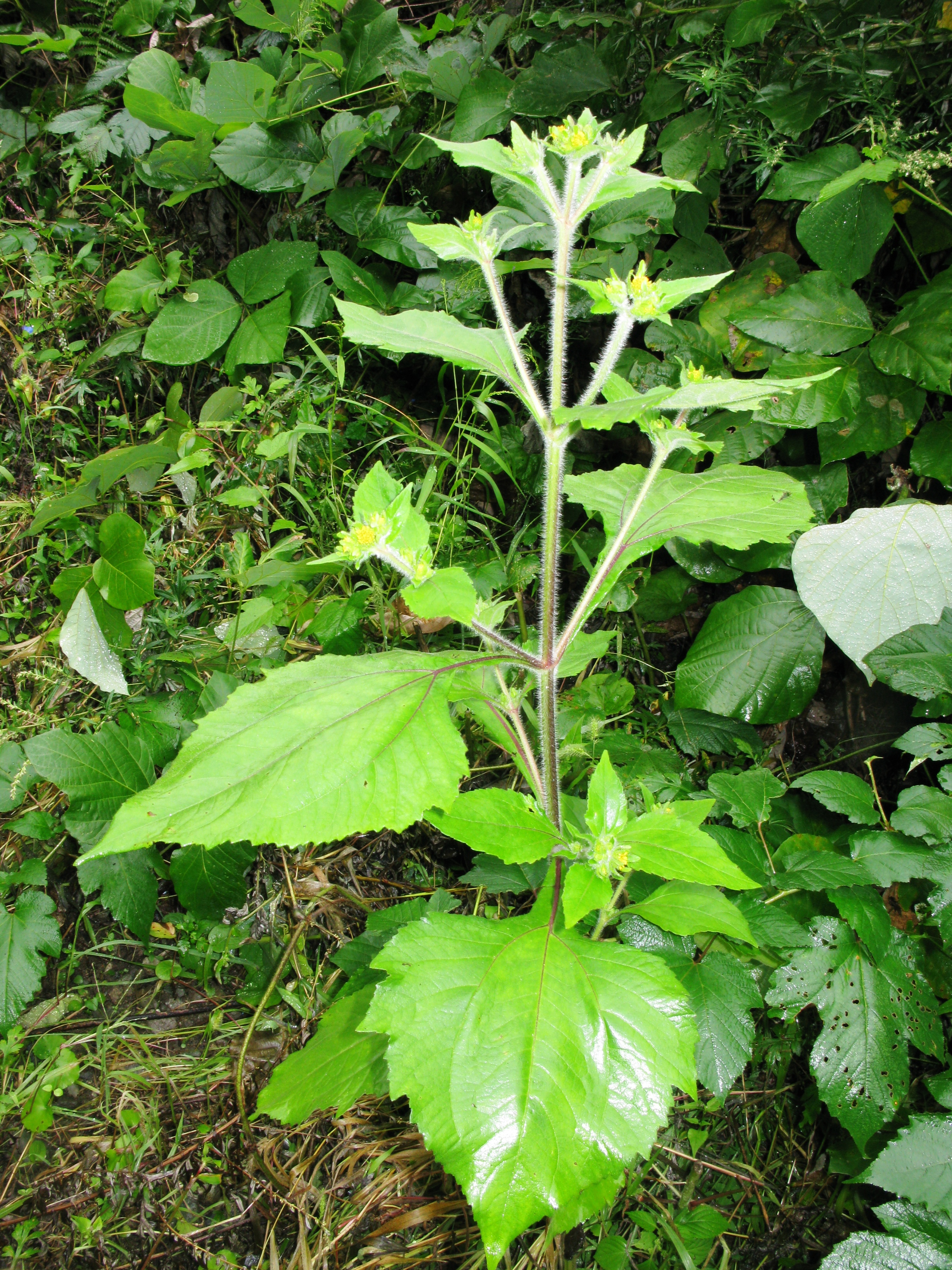 Sigesbeckia pubescens, Aizu are, Fukushima pref., Japan